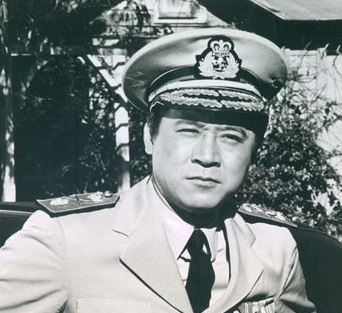 press photo of James Shigeta on It Takes a Thief 1968